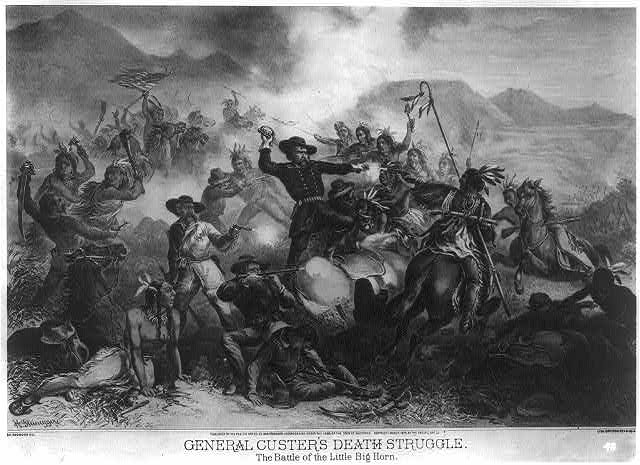 General Custer's death struggle. The battle of the Little Big Horn / H. Steinegger ; S.H. Redmond del. ; Lith. Britton, Rey & Co. S.F.